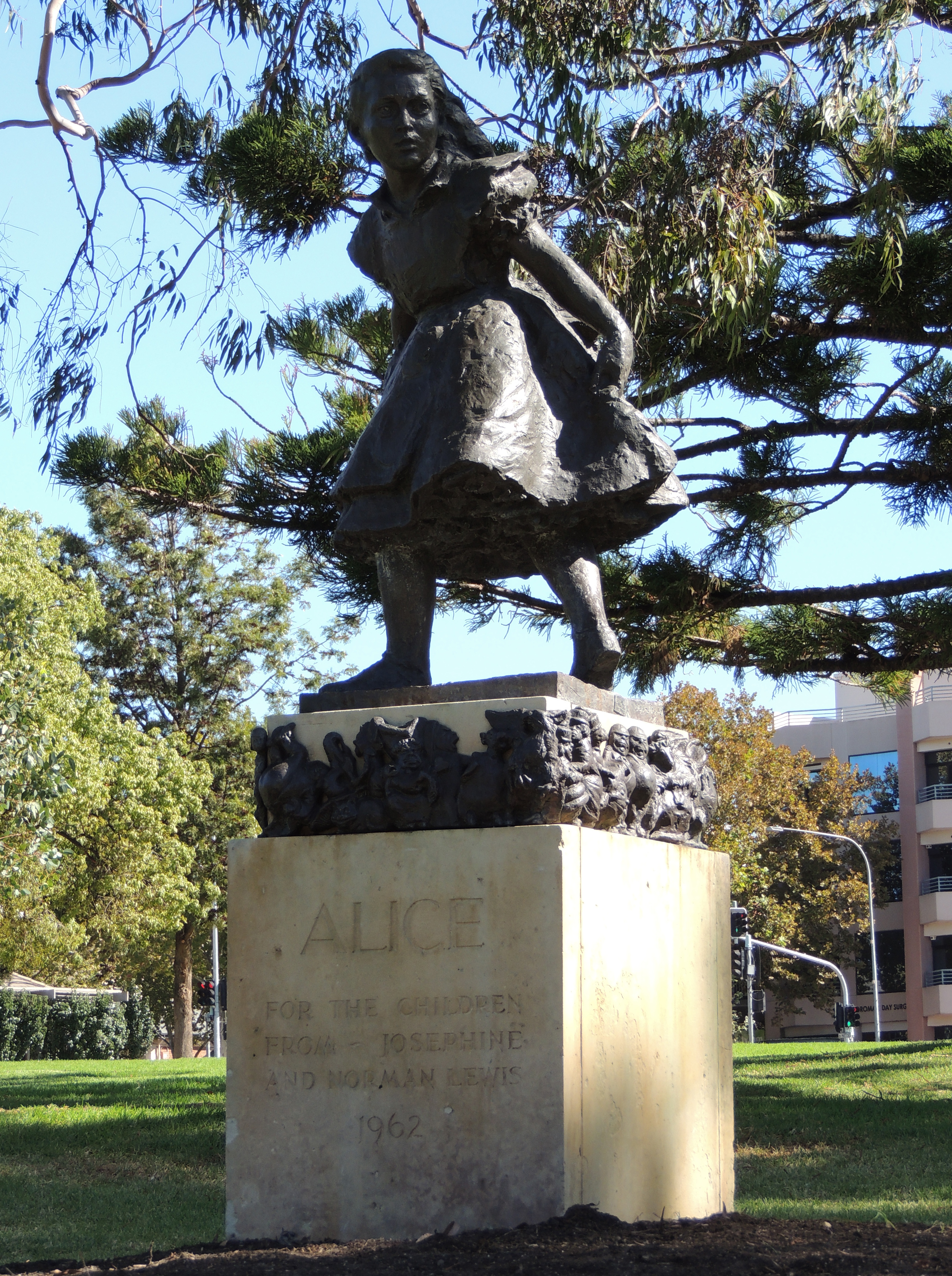 Statue of Alice, Rymill Park, Adelaide, South Australia. Unveiled in 1962, photographed in 2016.